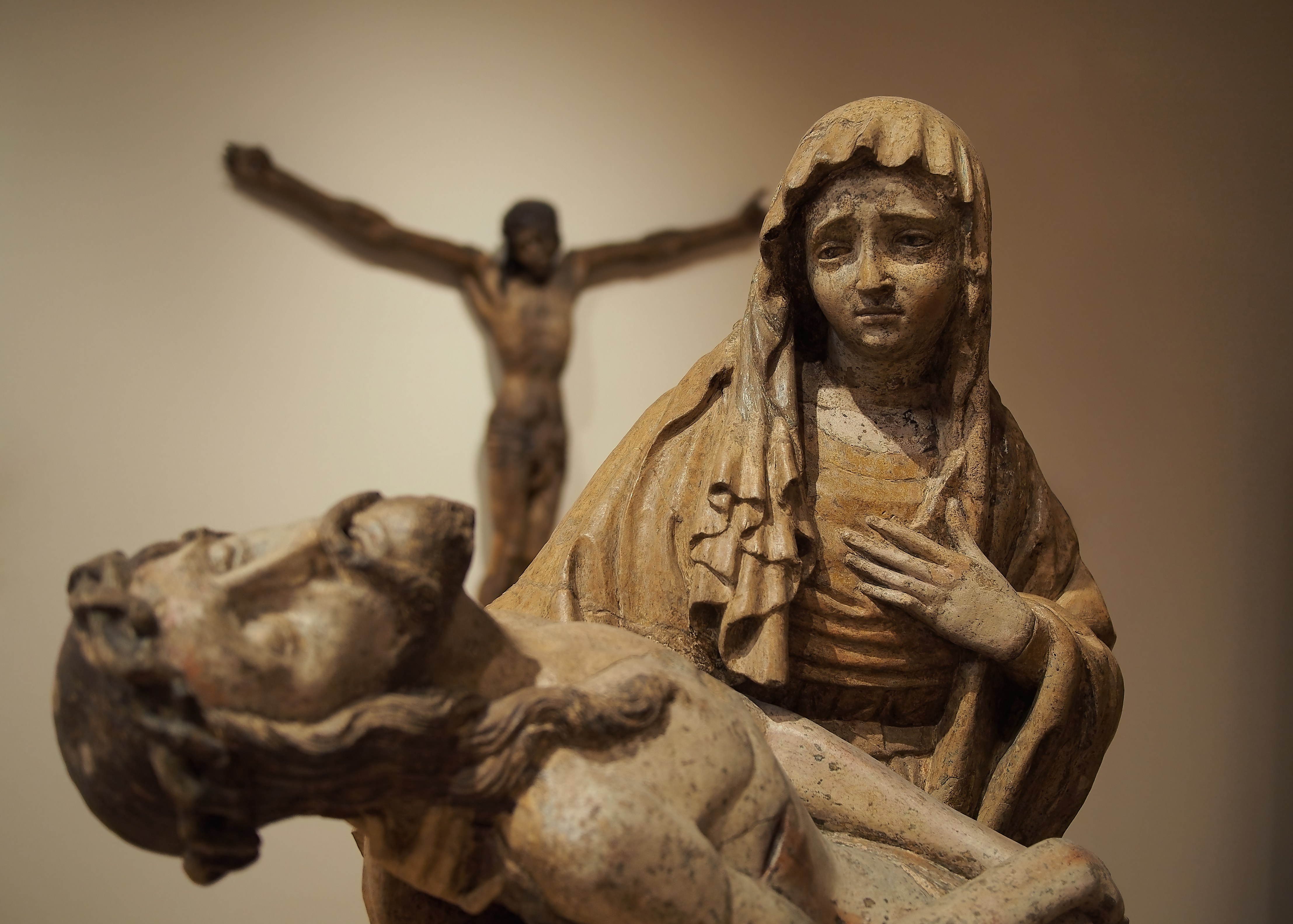 Passion of Jesus; sculpture of Crucifixion of Jesus observing Virgin Mary cradling the dead body of Jesus (known as Pieta). National Gallery of Slovenia. 14th and 15th century. This photograph was taken with an Olympus E-P5